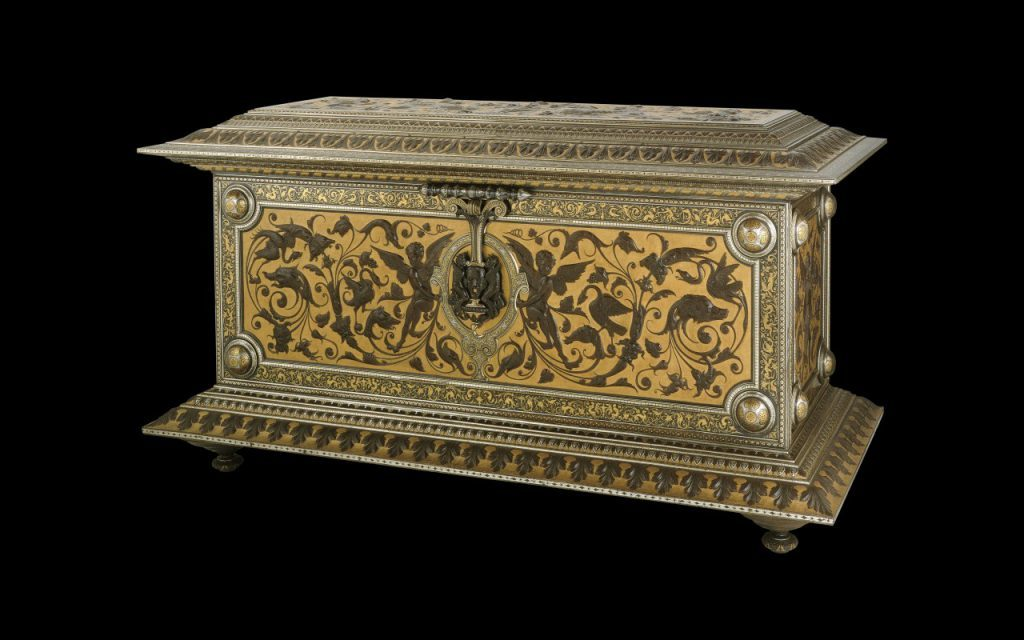 Iron Cassone, Spain, Eibar, 1871. From the Nasser D. Khalili Collection of Spanish Damascene Metalwork. Described at